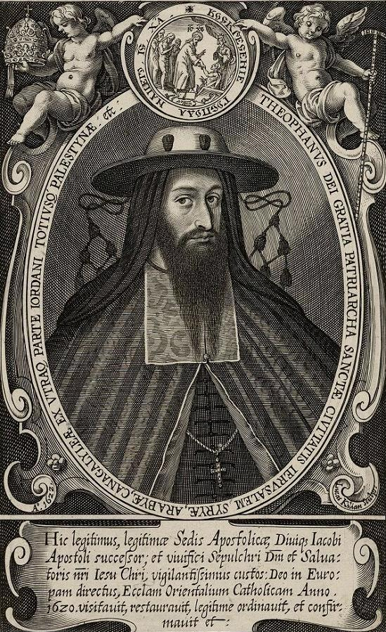 Theophanes III Greek Orthodox Patriarch of Jerusalem and Syria (1608-1644)